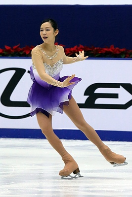 Photos – Cup of China 2013 – Ladies (Haruka Imai)